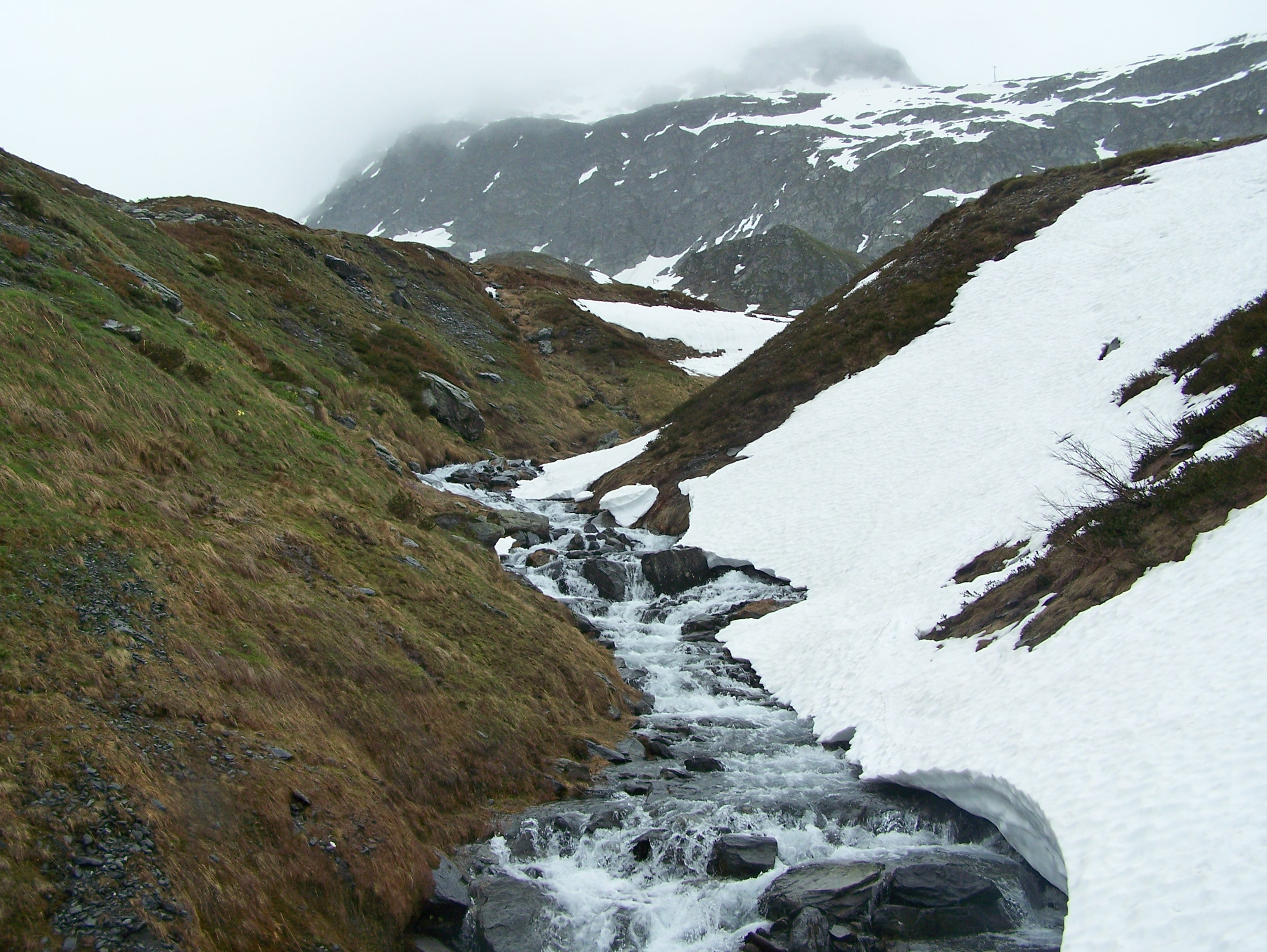 Mountainous landscape in Savoie near the col du Petit Saint-Bernard pass between France and Italy at the end of May 2007.